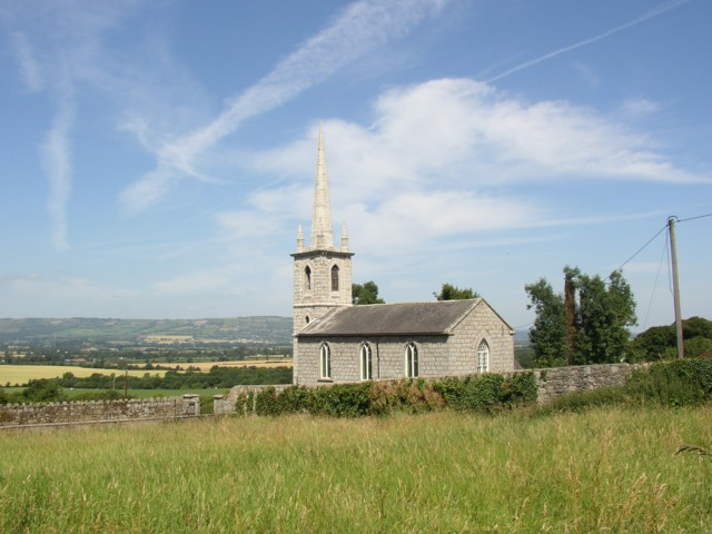 St John's Church, Nurney, Co. Carlow. Belonging to the Church of Ireland. Small, but well-proportioned.